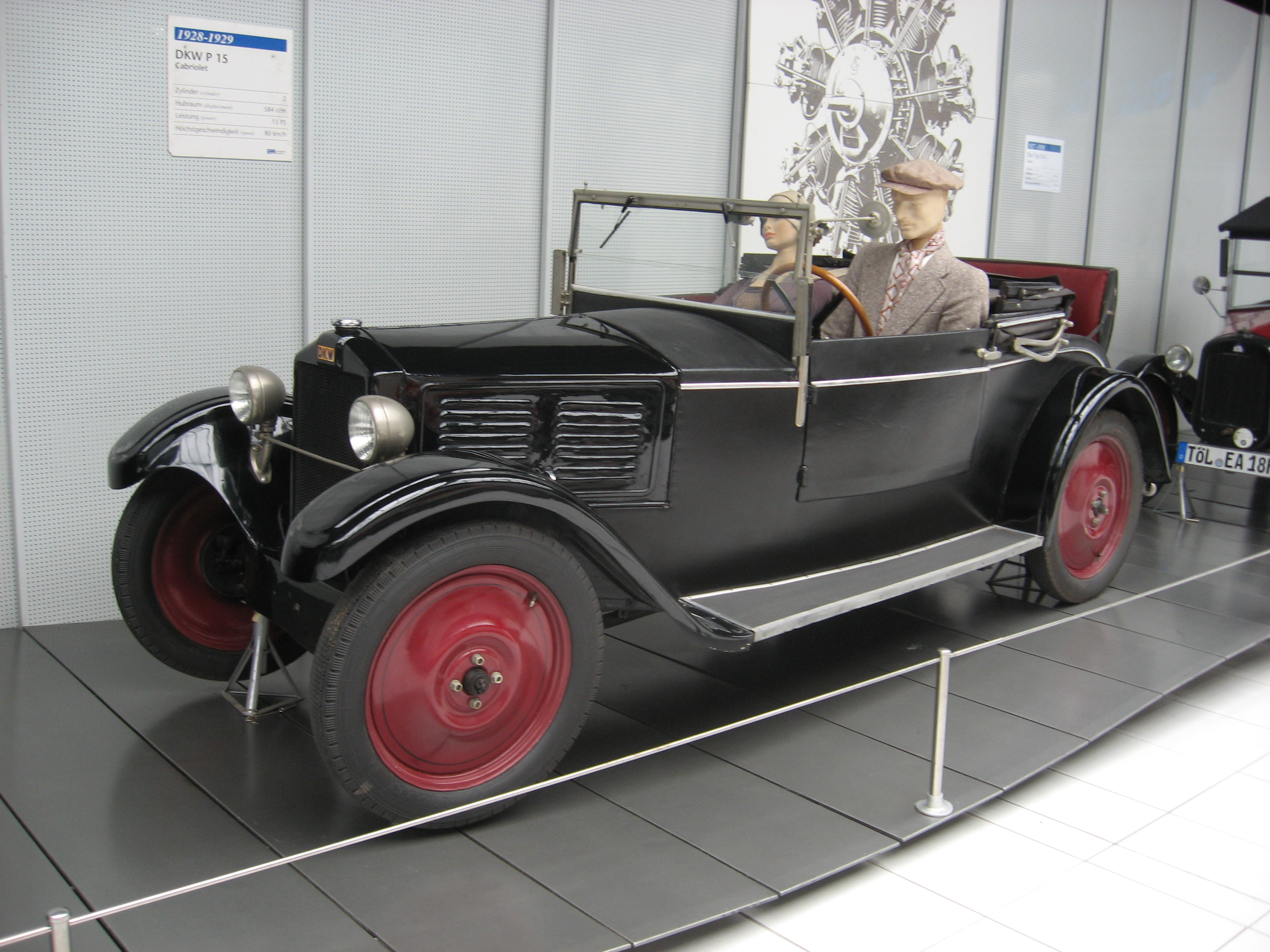 Subject: DKW P15 Author: Luc106 Date:June 10th, 2011 Place/Country: EFA-Museum für Deutsche Automobilgeschichte, Amerang (D) I release all rights in the public domain.